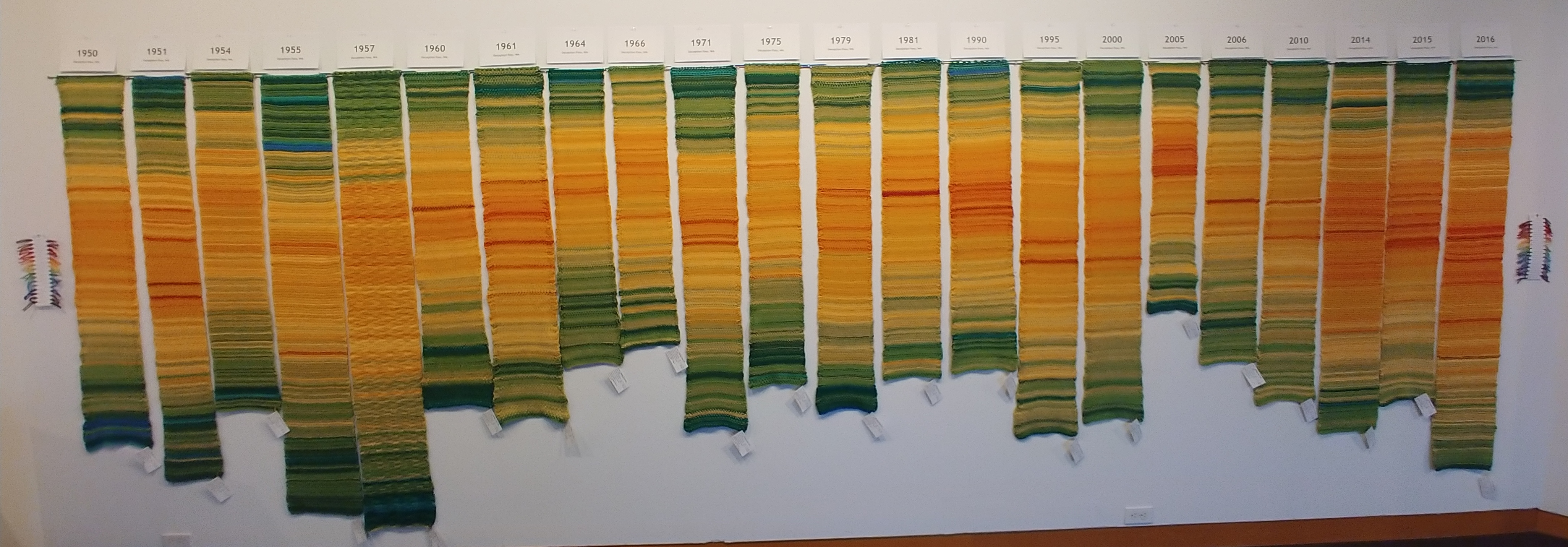 The Tempestry Project's display as part of the Museum of Northwest Art's Surge exhibit in the fall of 2018. This collection contains twenty two Tempestries for Deception Pass, WA, each one representing one year of high temperature data starting with January at the bottom. This collection ranges from 1950 on the left to 2017 on the right.